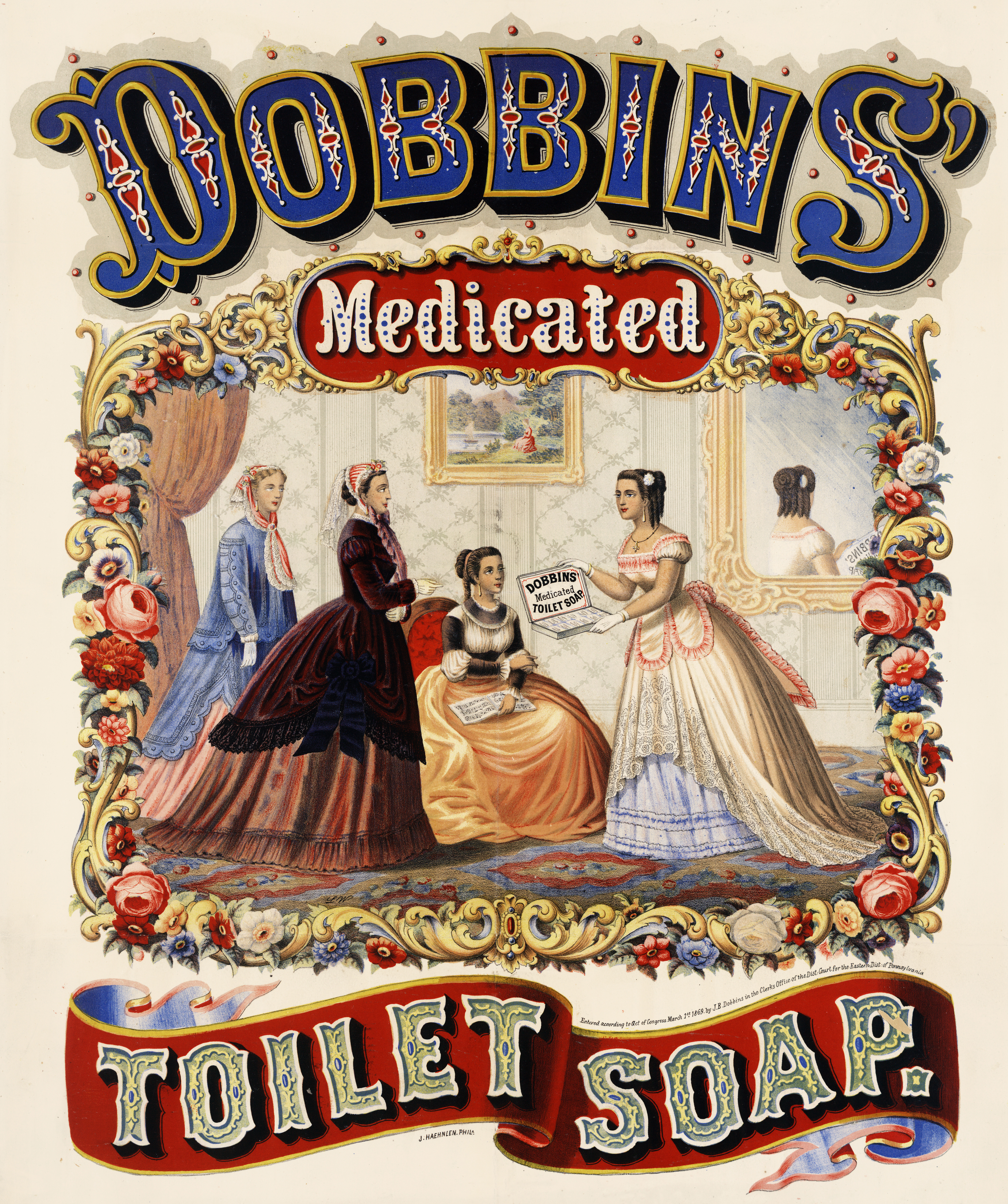 Dobbins' medicated toilet soap. Poster showing four well dressed women in a parlor, one of them is holding open a box of "Dobbins' Medicated Toilet Soap." Two of the women are wearing coats and gloves as though they just arrived, the fourth woman is seated holding an open book of sheet music.